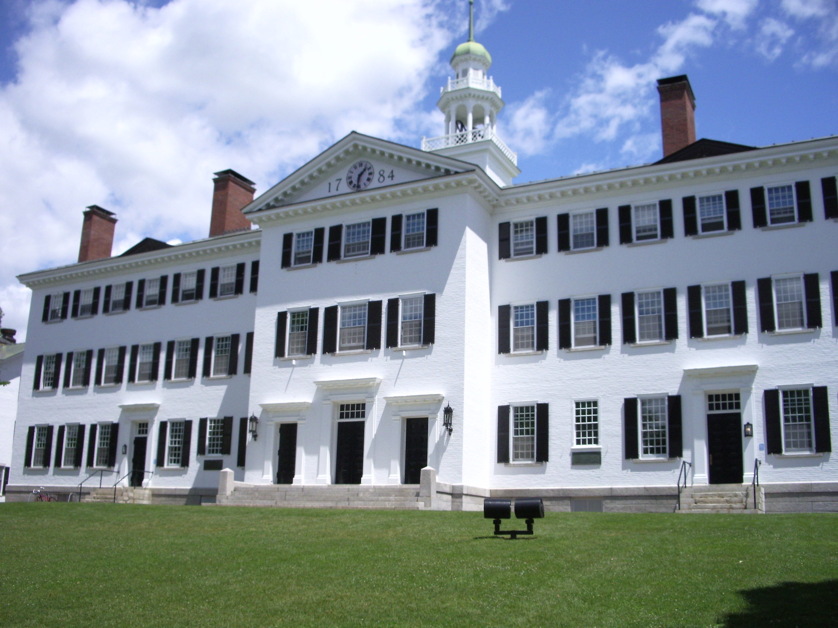 Photograph of Dartmouth Hall at the campus of Dartmouth College in Hanover, New Hampshire.